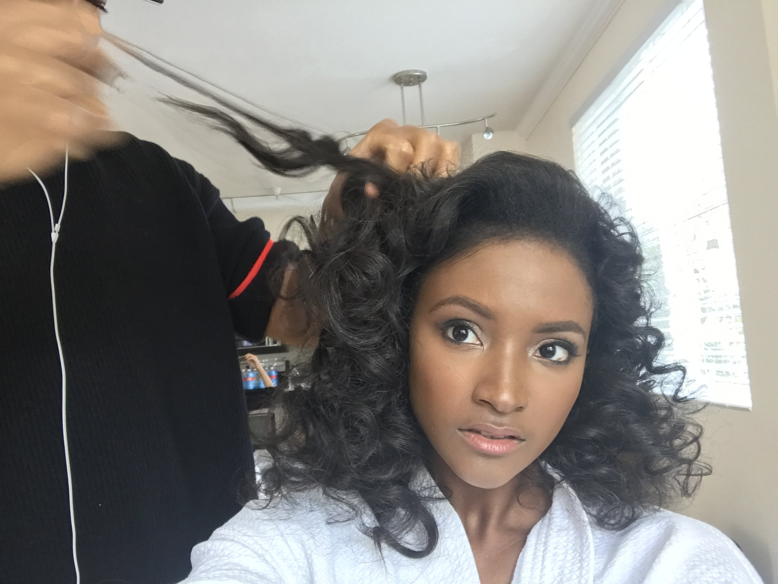 American model and programmer Lyndsey Scott, in a behind-the-scenes modeling photograph.